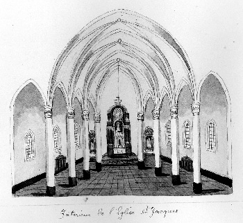 Interior of the former Church of Saint James in Maastricht, the Netherlands. The church was originally built as the chapel of the Saint James Hospital, intended for pilgrims on their name to Santiago de Compostella. From ca 1632-1803 the building was used as a parish church for the parish of Saint John the Baptist, as the Catholics were driven out of their church by the Protestants. The drawing is a reconstruction of the church by Philippe van Gulpen (1792-1862), who was only 11 years old when the building was demolished.